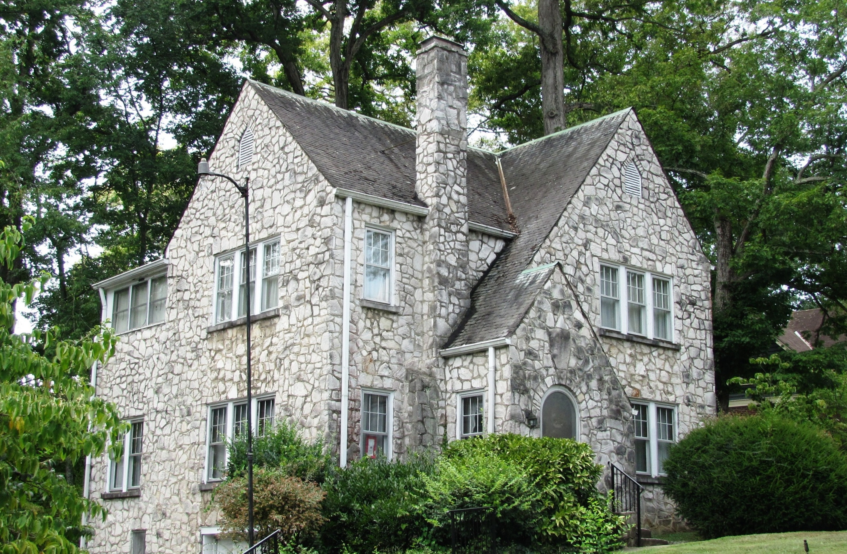 House at 254 Chamberlain Boulevard in the Lindbergh Forest community of Knoxville, Tennessee, USA. Built in 1929, this house is listed as a contributing property within the NRHP-listed Lindbergh Forest Historic District.